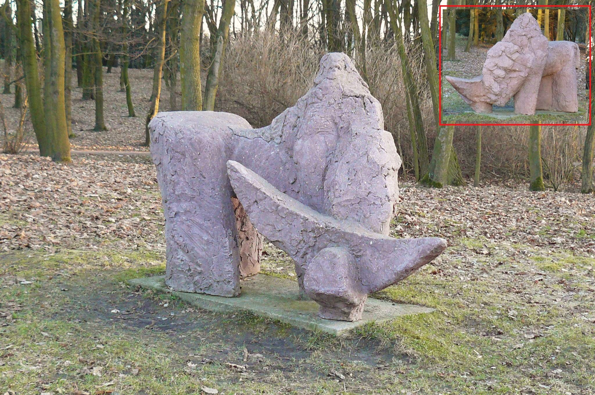 The Animal, Anna Rodzinska, Poznan.